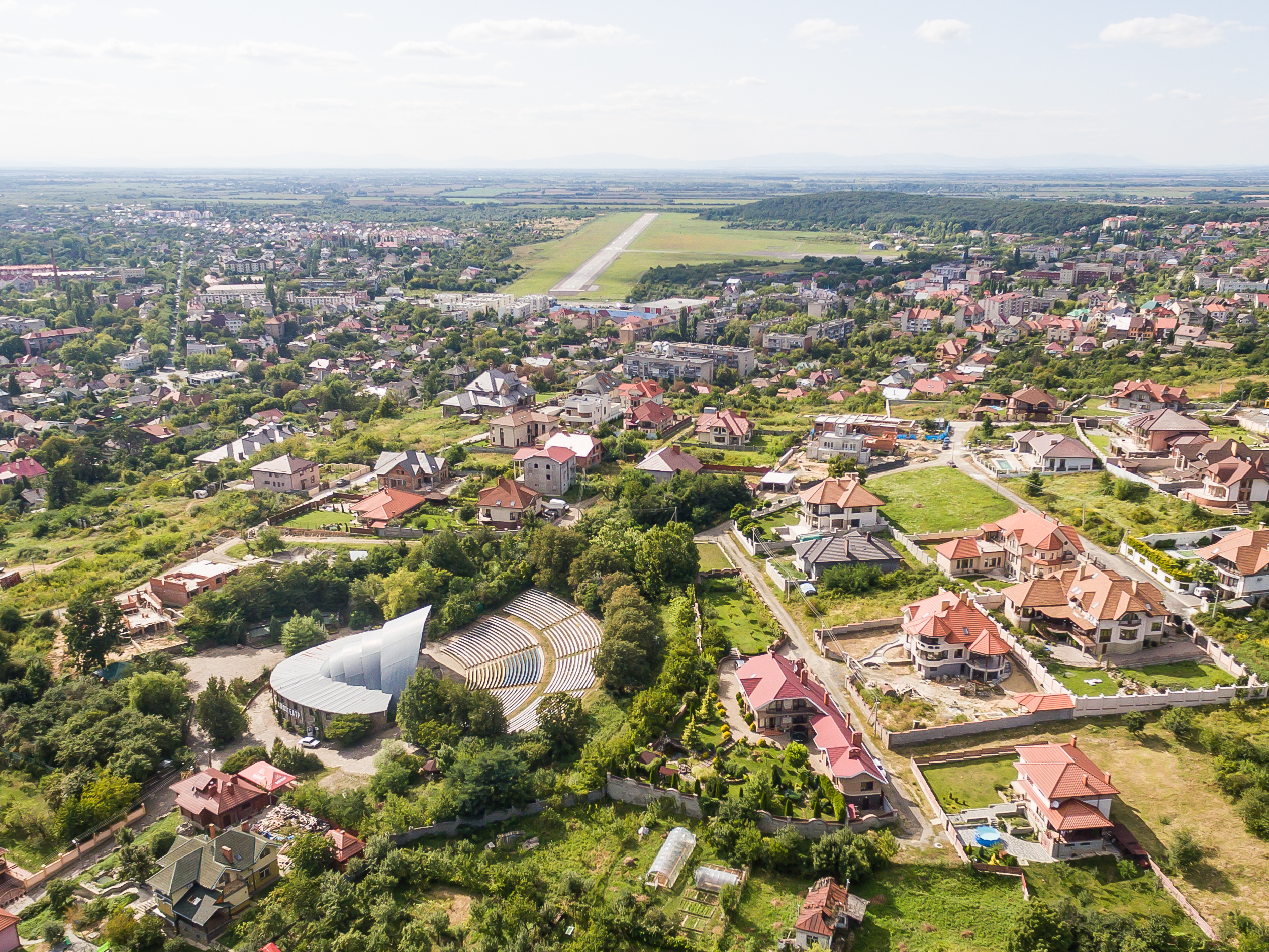 Aerial view Uzhhorod -Amphitheatre. At the horizont the airport